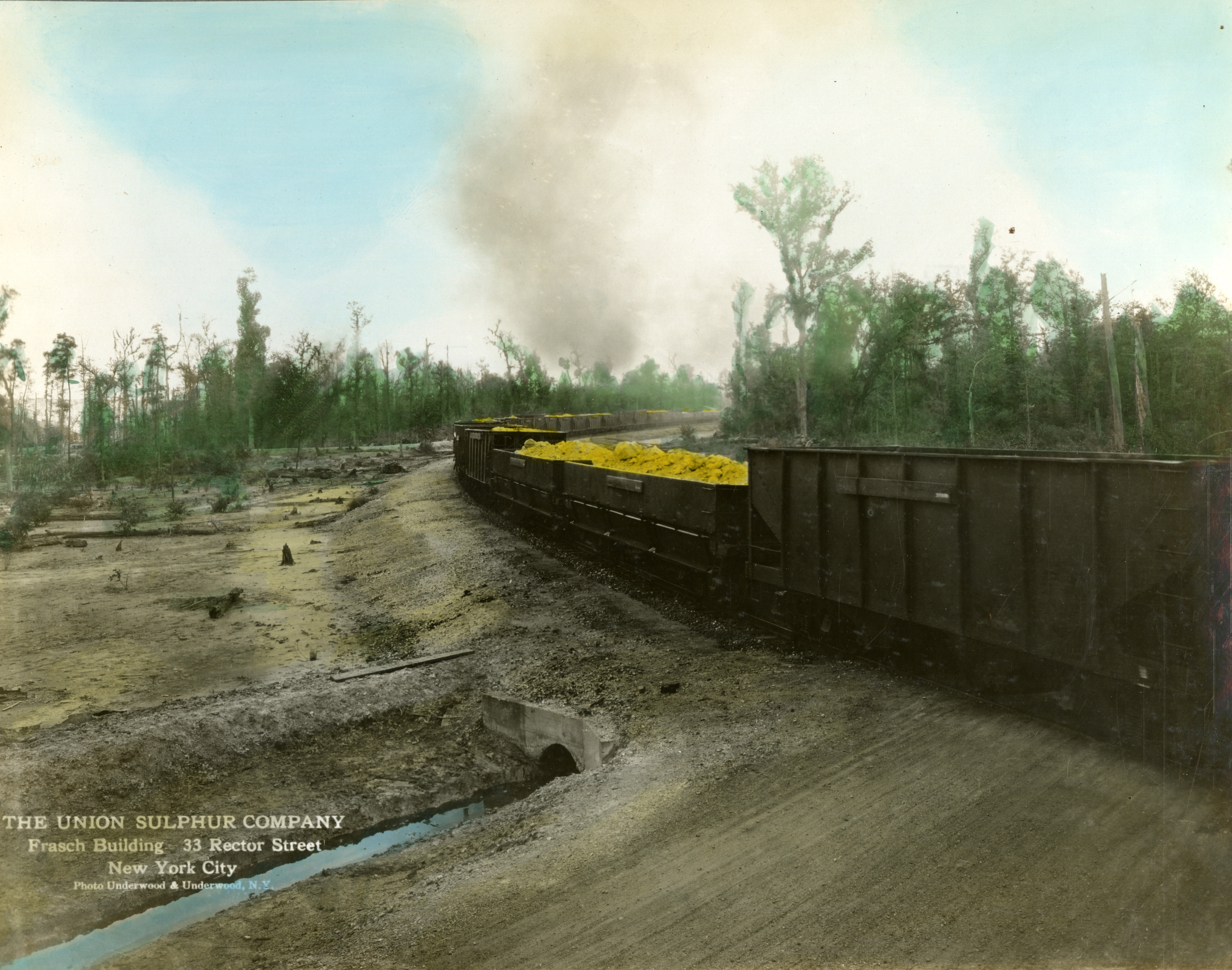 Union Sulphur Co. colorized B&W photo of railcars transporting sulphur from mines to Union Sulphur Co. wharf at Sabine.